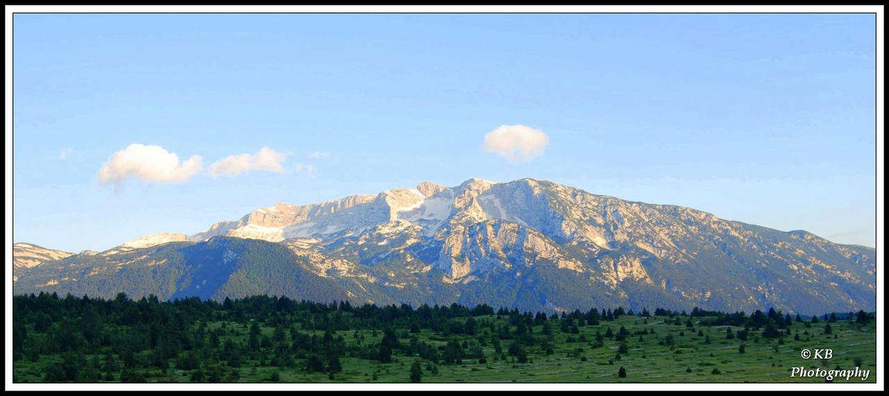 Čvrsnica from distance